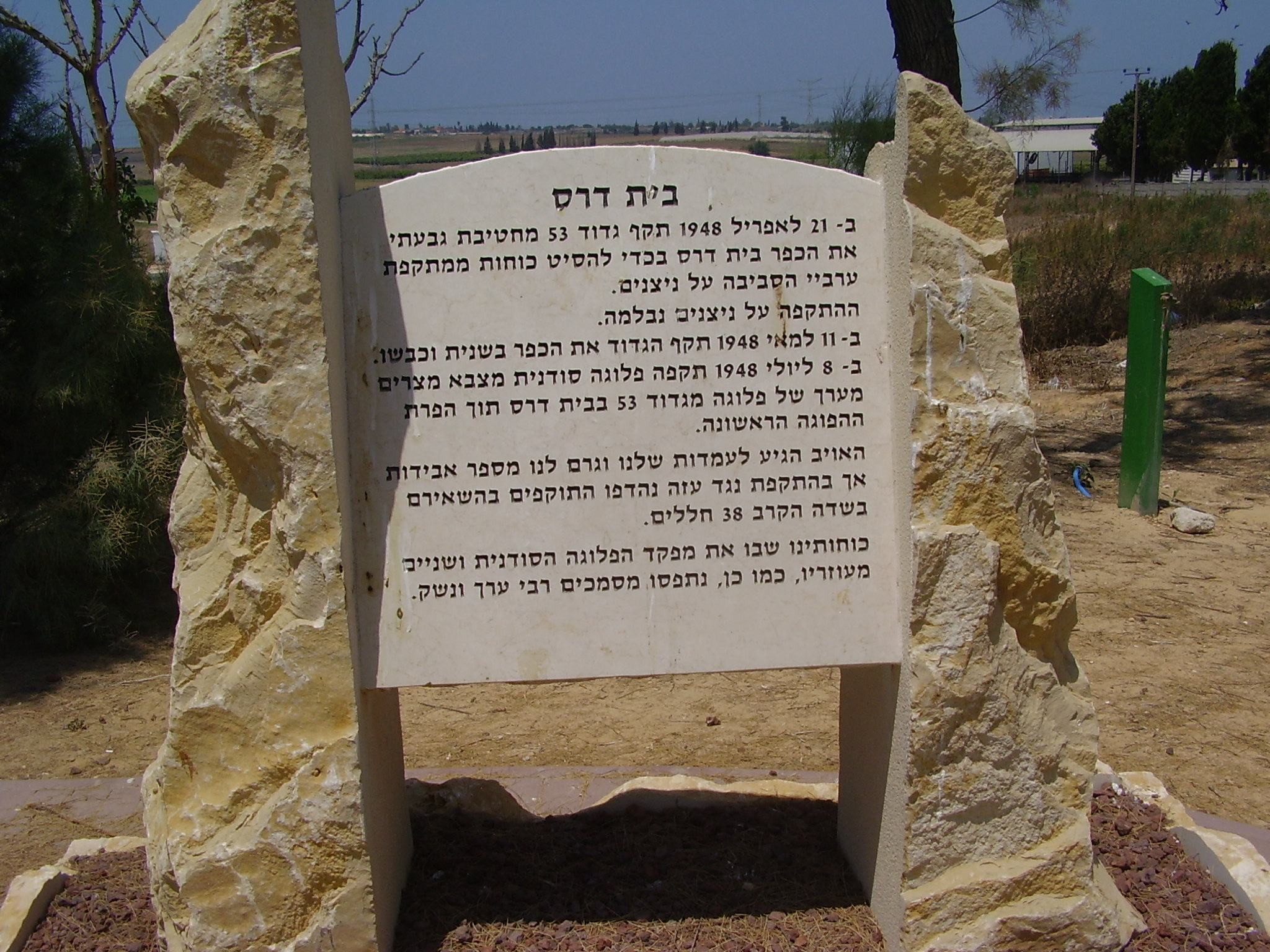 Giv\'ati Brigade Memorials in Moshav Giv\'ati